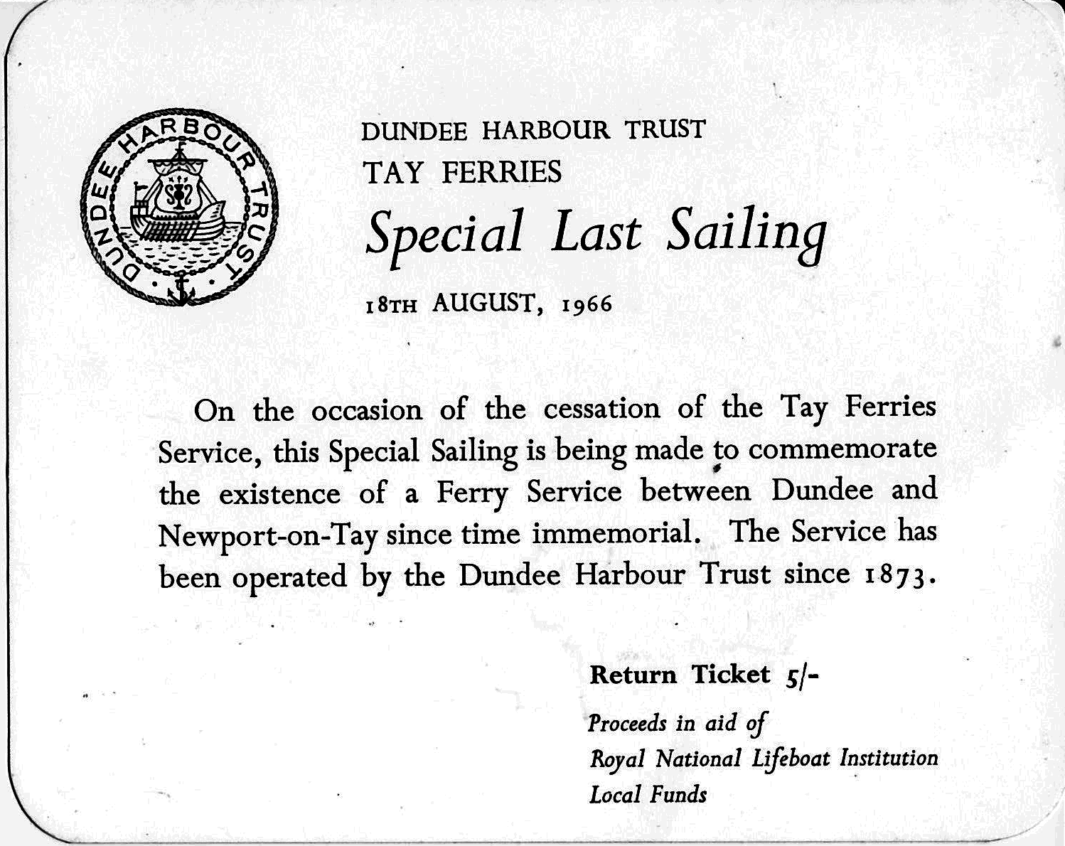 The ferry ceased to sail after the road bridge across the Tay was opened.